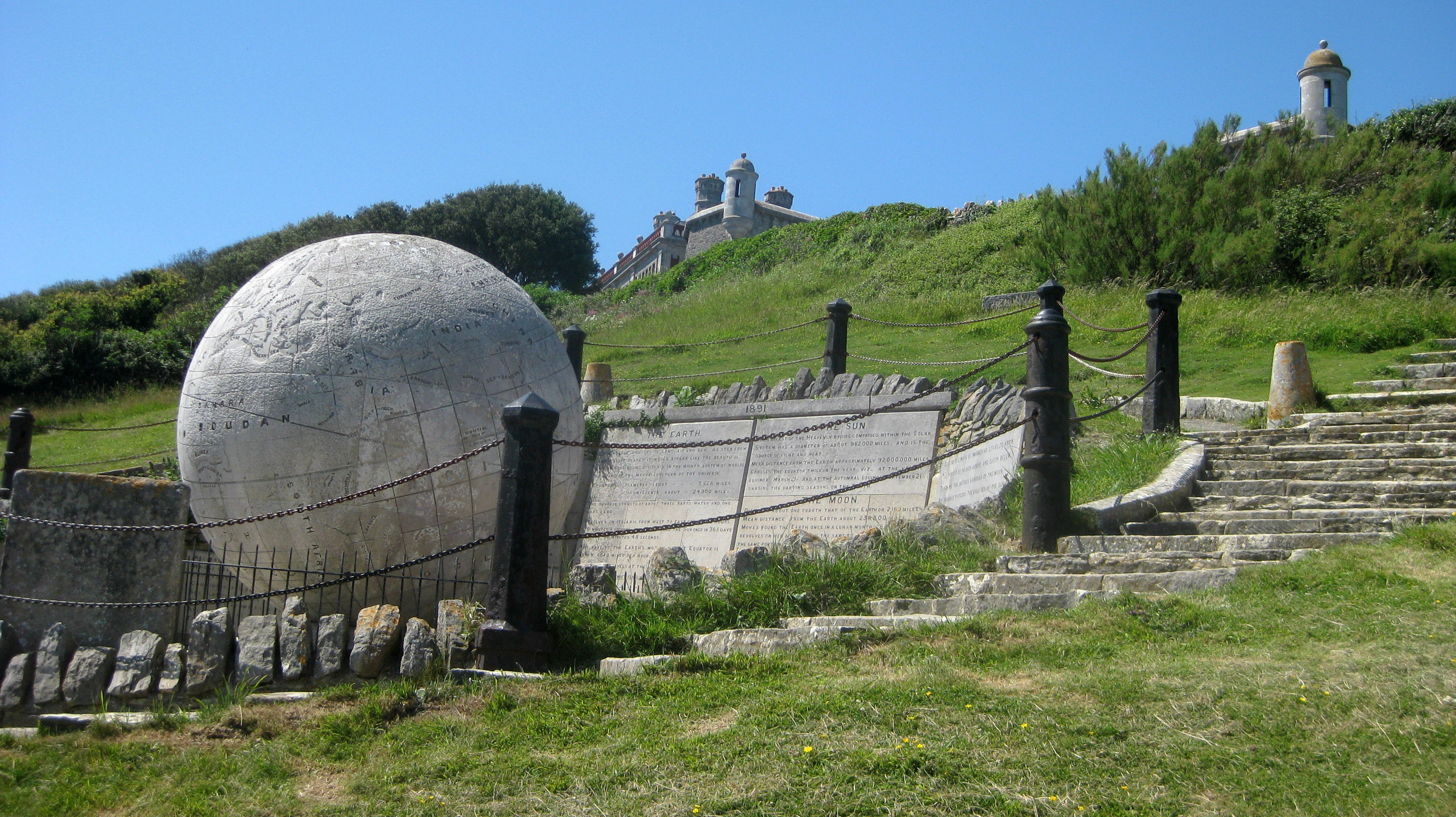 Great Globe and Durston Castle in the rear